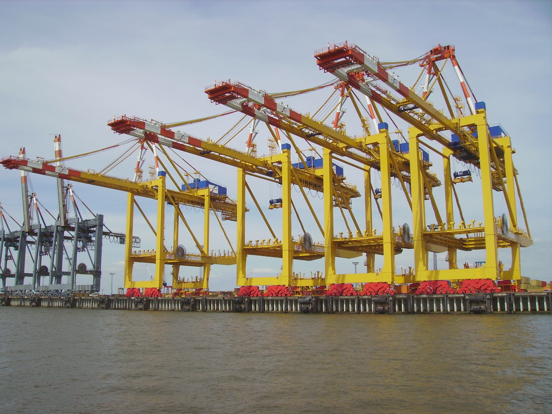 Container cranes at the container-terminal of Bremerhaven in Germany